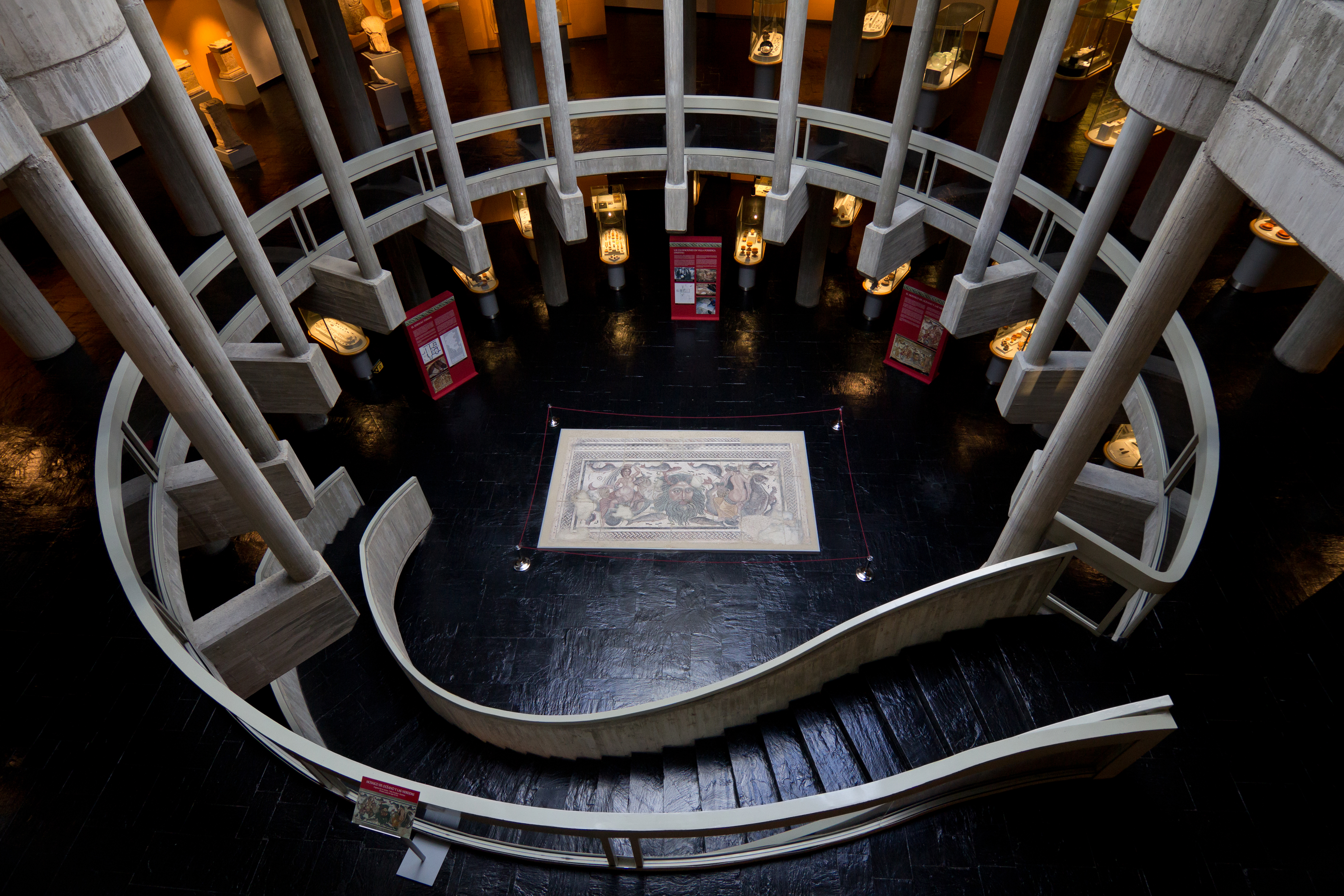 Interior of the Archaeological Museum of Palencia, House of the Lace, Palencia, Castile and León, Spain. In the lower floor we can see the 4th-century Roman mosaic Ocean and Nereids, found in Dueñas in 1962.